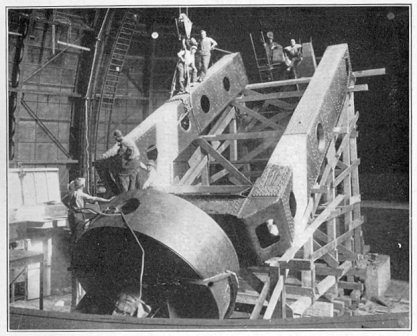 The caption reads: "Erecting the polar axis of the 100-inch telescope."